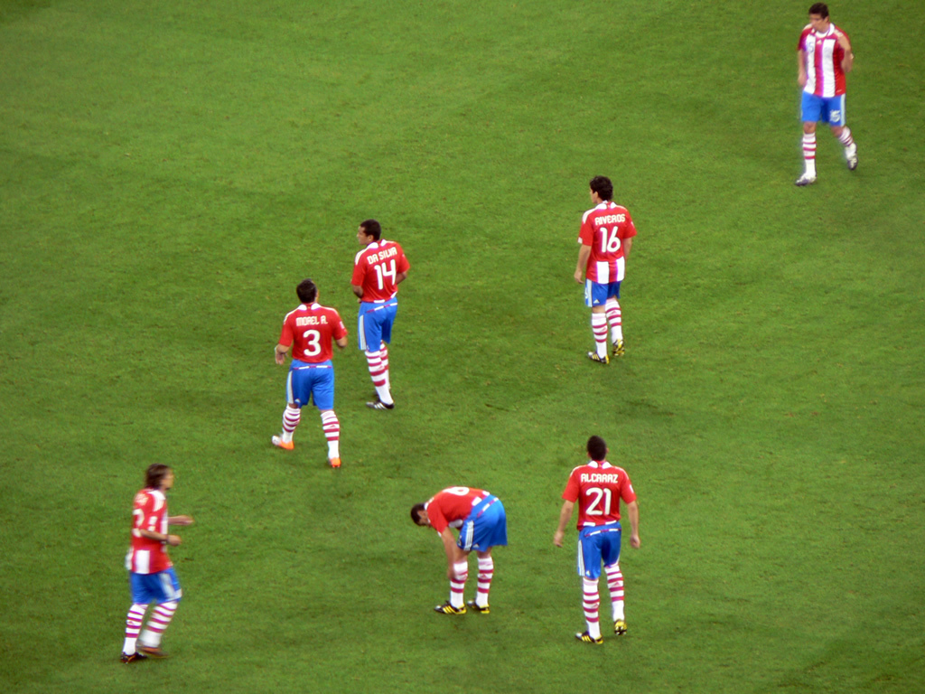 Paraguay team during the game between Italy and Paraguay at FIFA World Cup 2010, 14 June 2010, Green Point Stadium, Cape Town